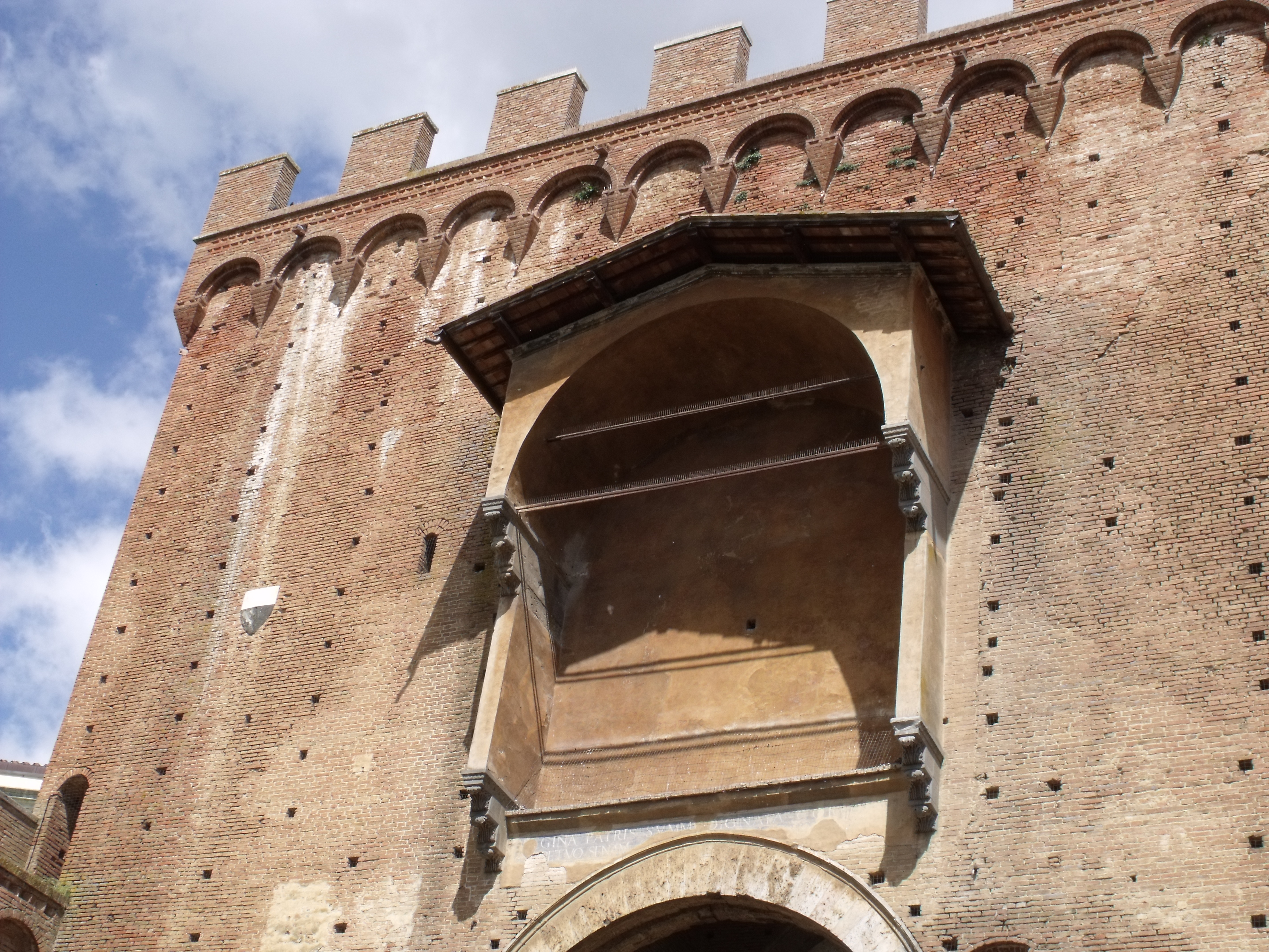 City Gate Porta Romana in Siena (Ex-Fresko)